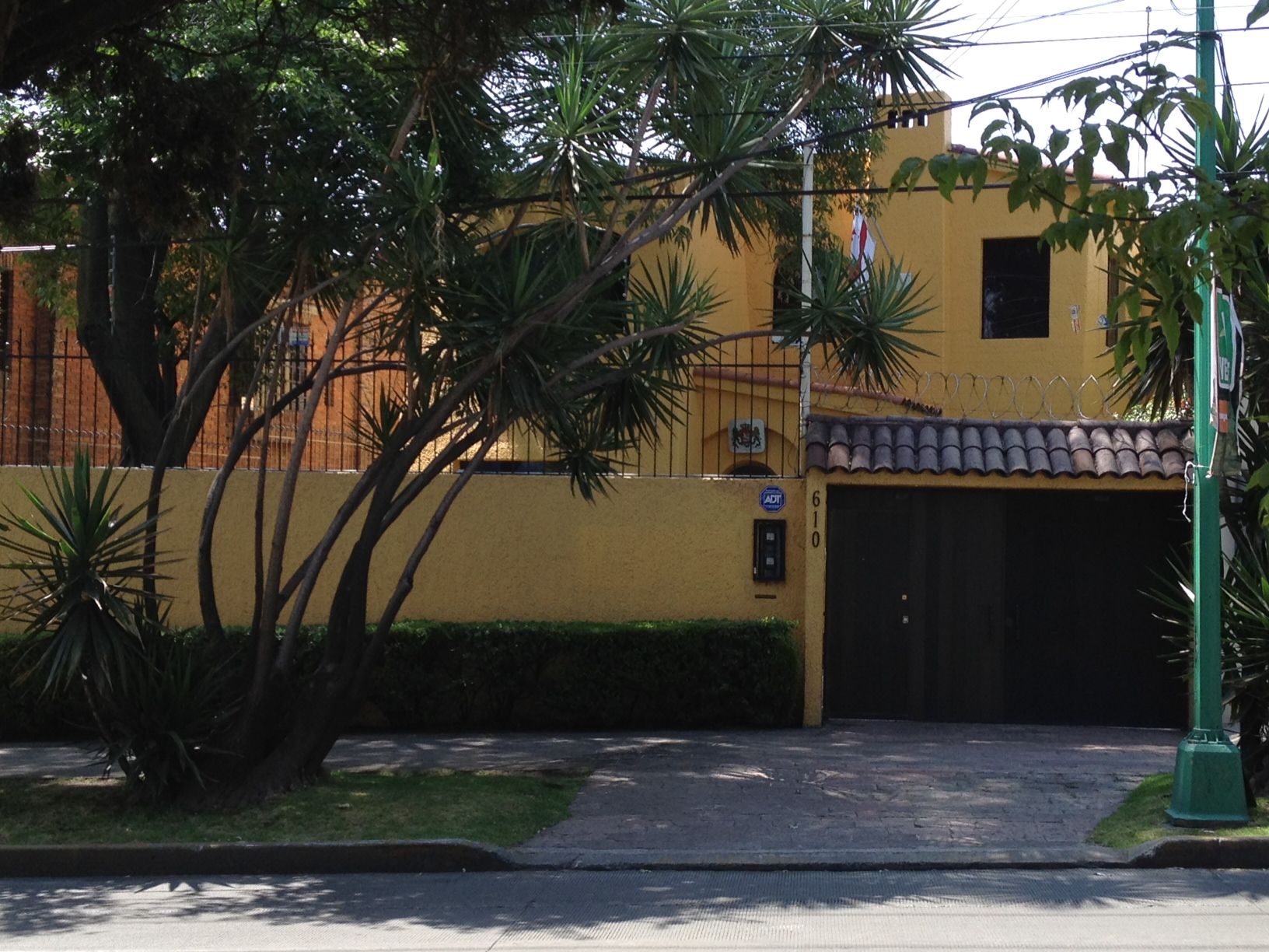 Embassy of Georgia in Mexico City